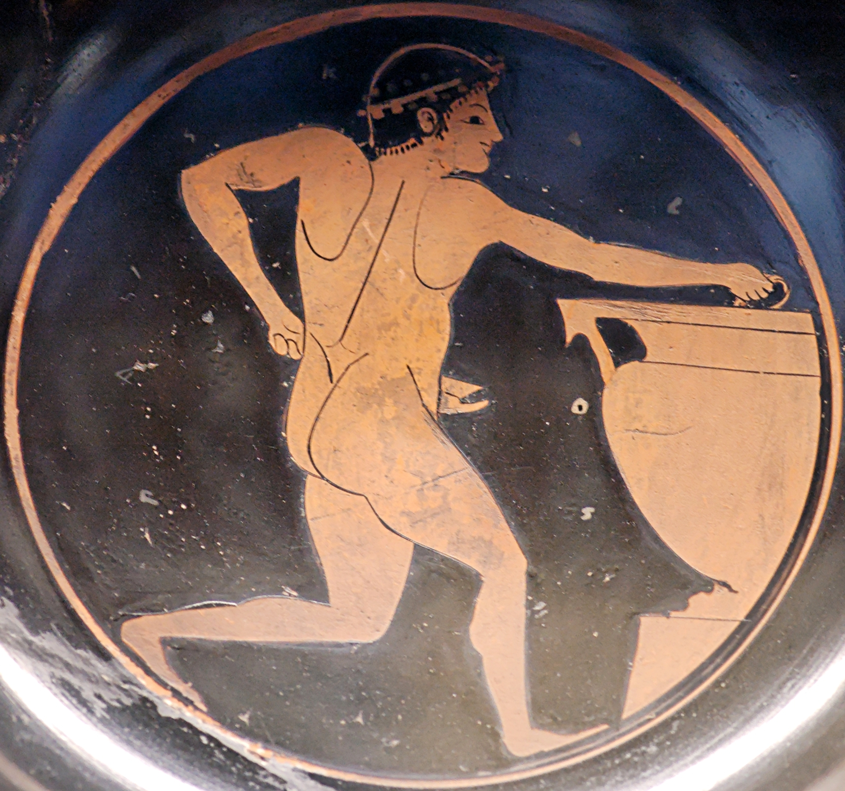 Youth using an oinochoe (wine jug, in his right hand) to draw wine from a crater, in order to fill a kylix (shallow cup, in his left hand). His garland crown and his nudity show that he is serving as cup-bearer in a symposium, or banquet. Kalos inscription. Tondo of an Attic red-figure cup, ca. 520-510 BC.